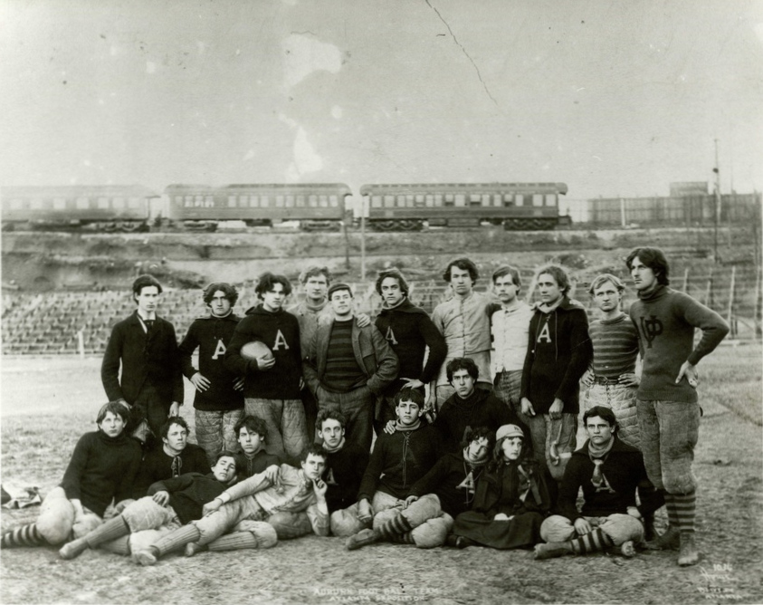 The 1895 Agricultural and Mechanical College of Alabama, now Auburn University, varsity football team posing in Piedmont Park. The only two individuals identified on the reverse side are Walter M. Riggs (far left, back row) and John Heismann (center, wearing glasses, standing).